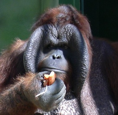 Male Bornean Orangutan (“Ňuňák”) in Zoo Ústí nad Labem, Czechia